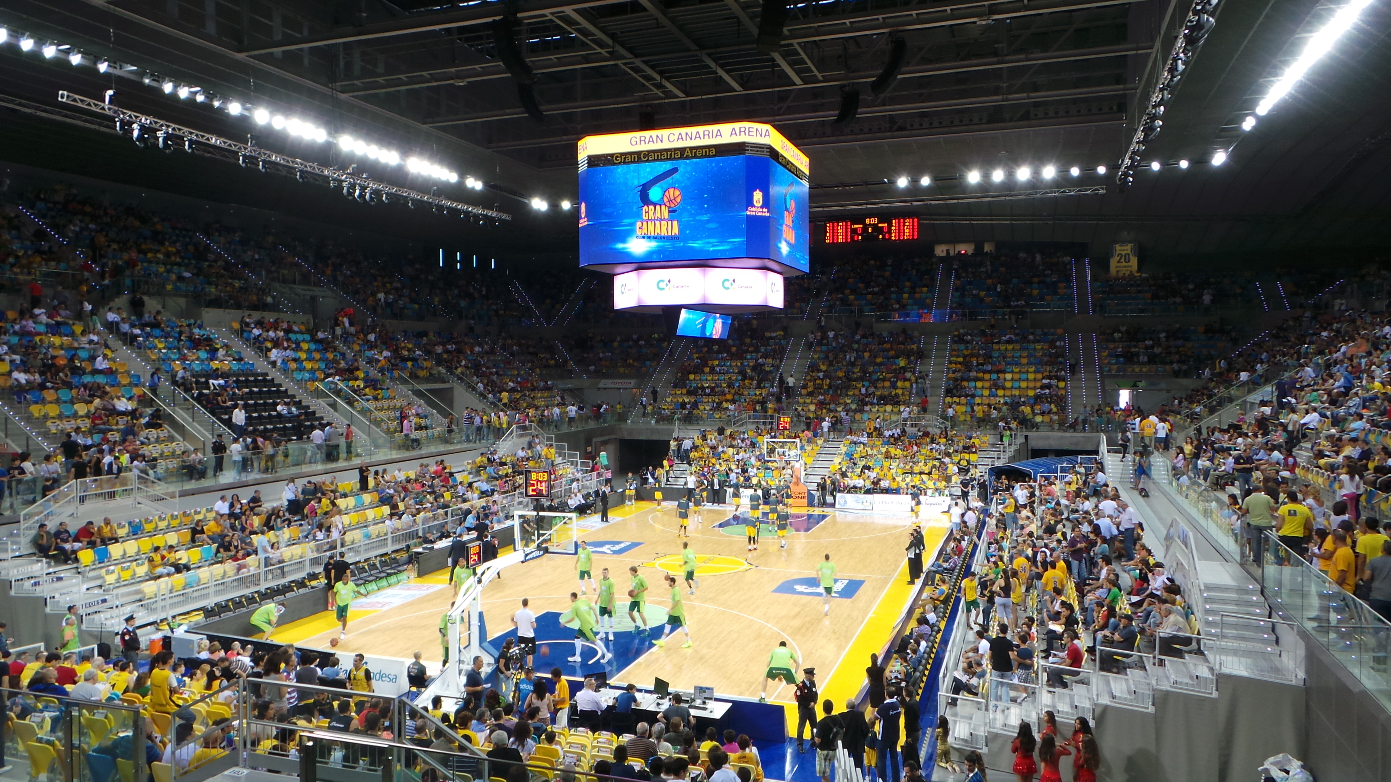 Gran Canaria Arena interior — during a May 18, 2014 Herbalife sponsored basketball game between the CB Gran Canaria and Unicaja Malaga teams.